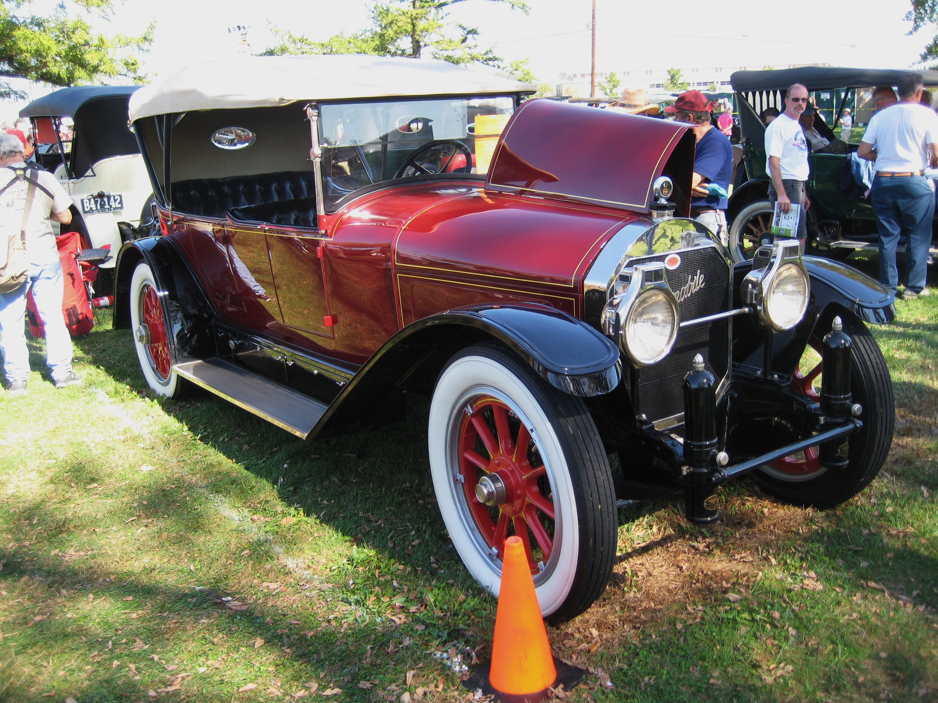 Locomobile - among the cars seen at the Fall AACA Meet in Hershey, Pennsylvania, October 2010.